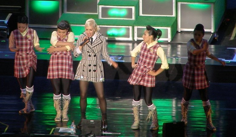 Gwen Stefani performing "Wind It Up" at the Jones Beach Theatre in Wantagh, New York, United States